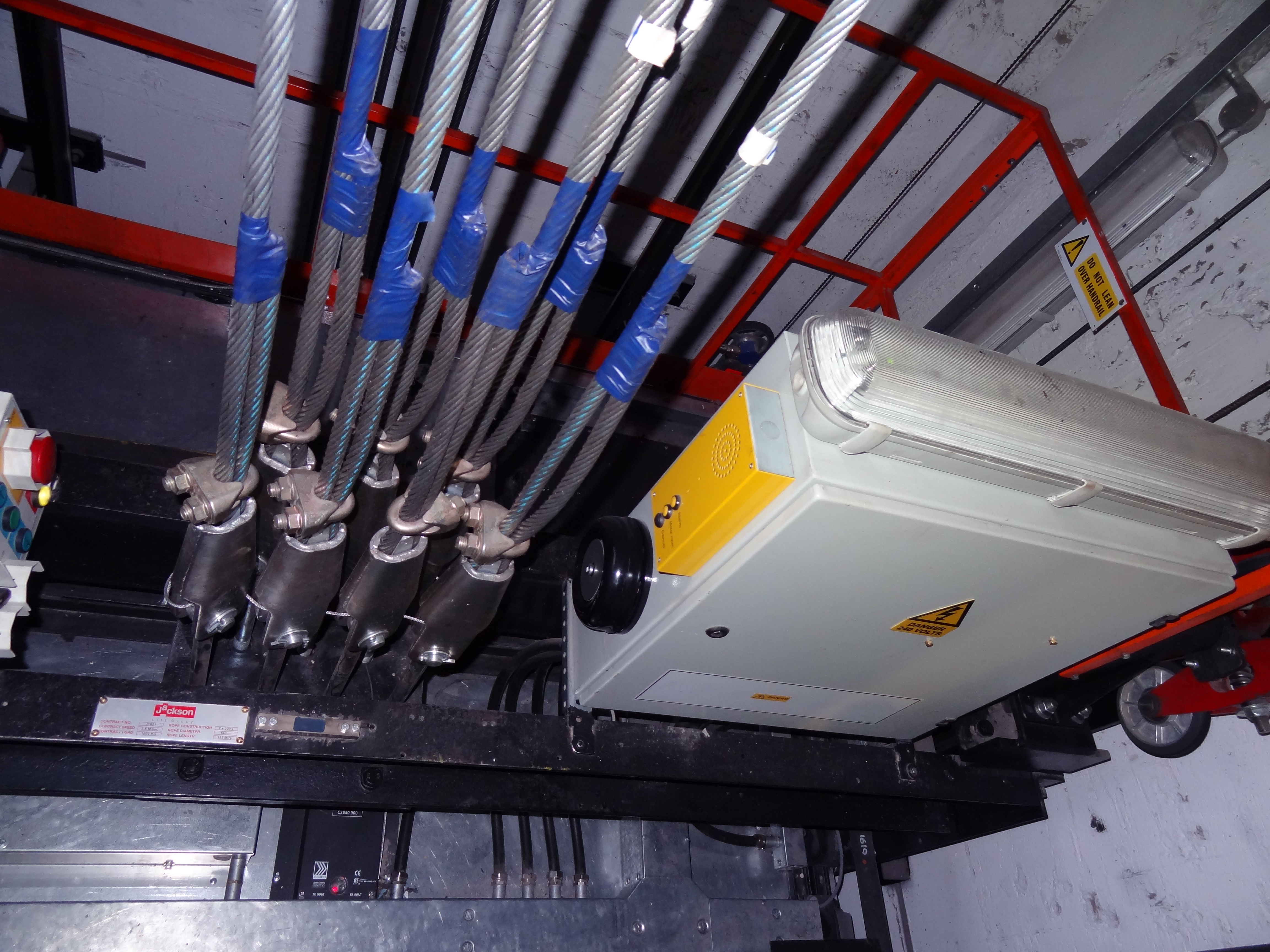 These are the ropes attached on top of the elevator car.